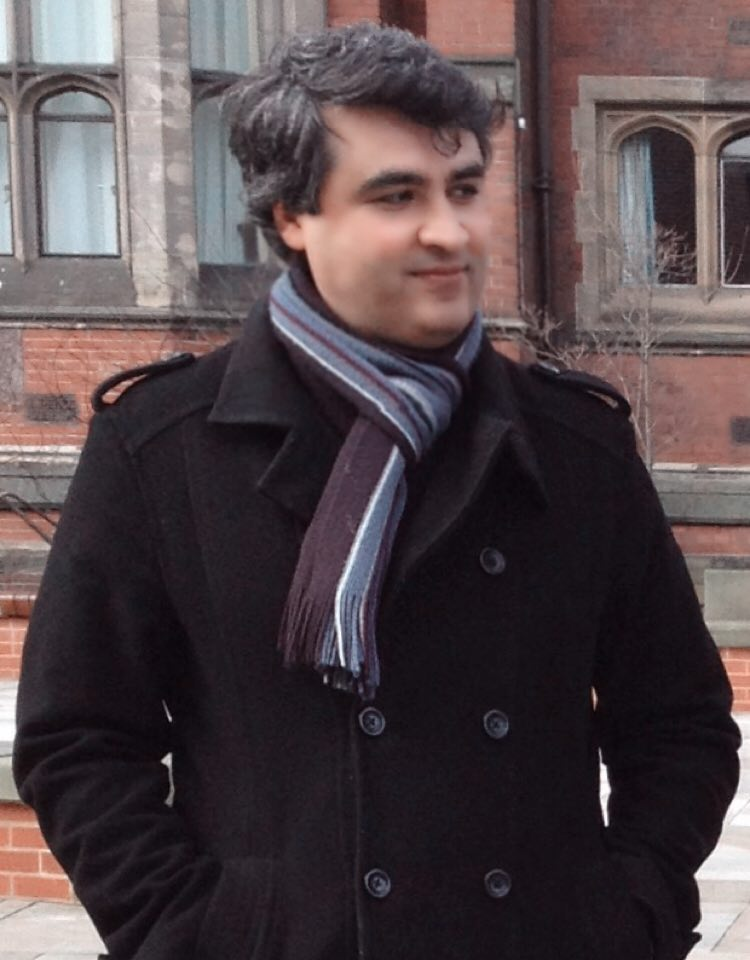 Majid KhosraviNik in Newcastle University, Newcastle upon Tyne